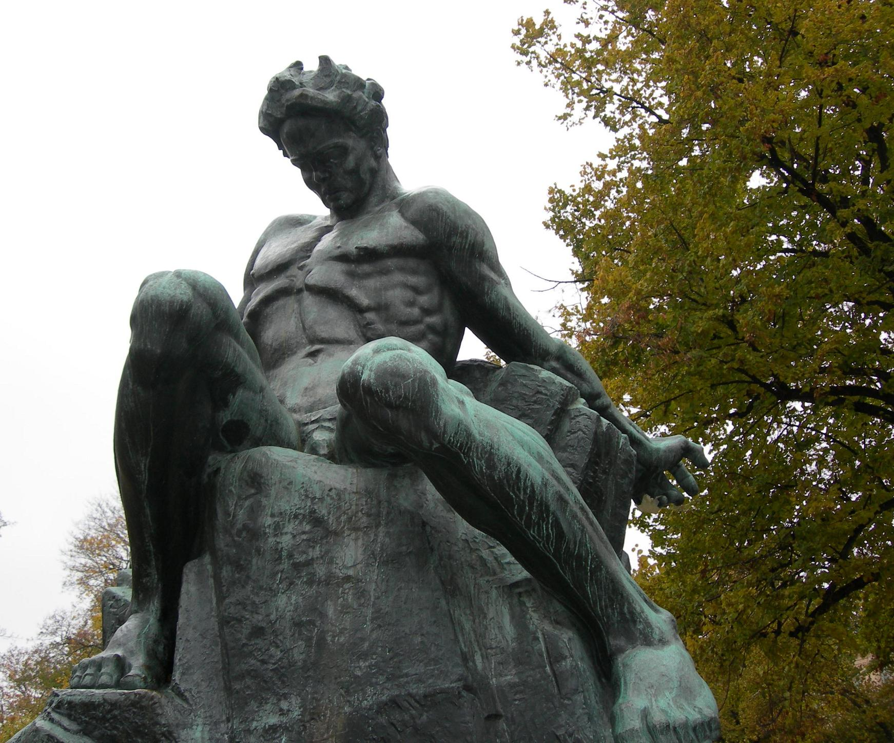 Statue of Strindberg by Carl Eldh in Stockholm. Photo by Bronks November 2005.